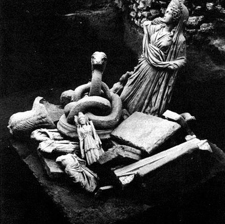 Glykon snake is unique sculpture in the world and was carved from a single block of marble. It is the most important piece of the Museum of National History and Archaeology from Constanta – Romania. Was discovered on 1 April 1962 with also a statue symbolizing a woman, and a plaque inscribed SSS = 666. It can be understood as the carbon 12 isotope - contains 6 electrons, 6 protons, 6 neutron. Carbon 12 is the physical body of man in connection with the physical universe.